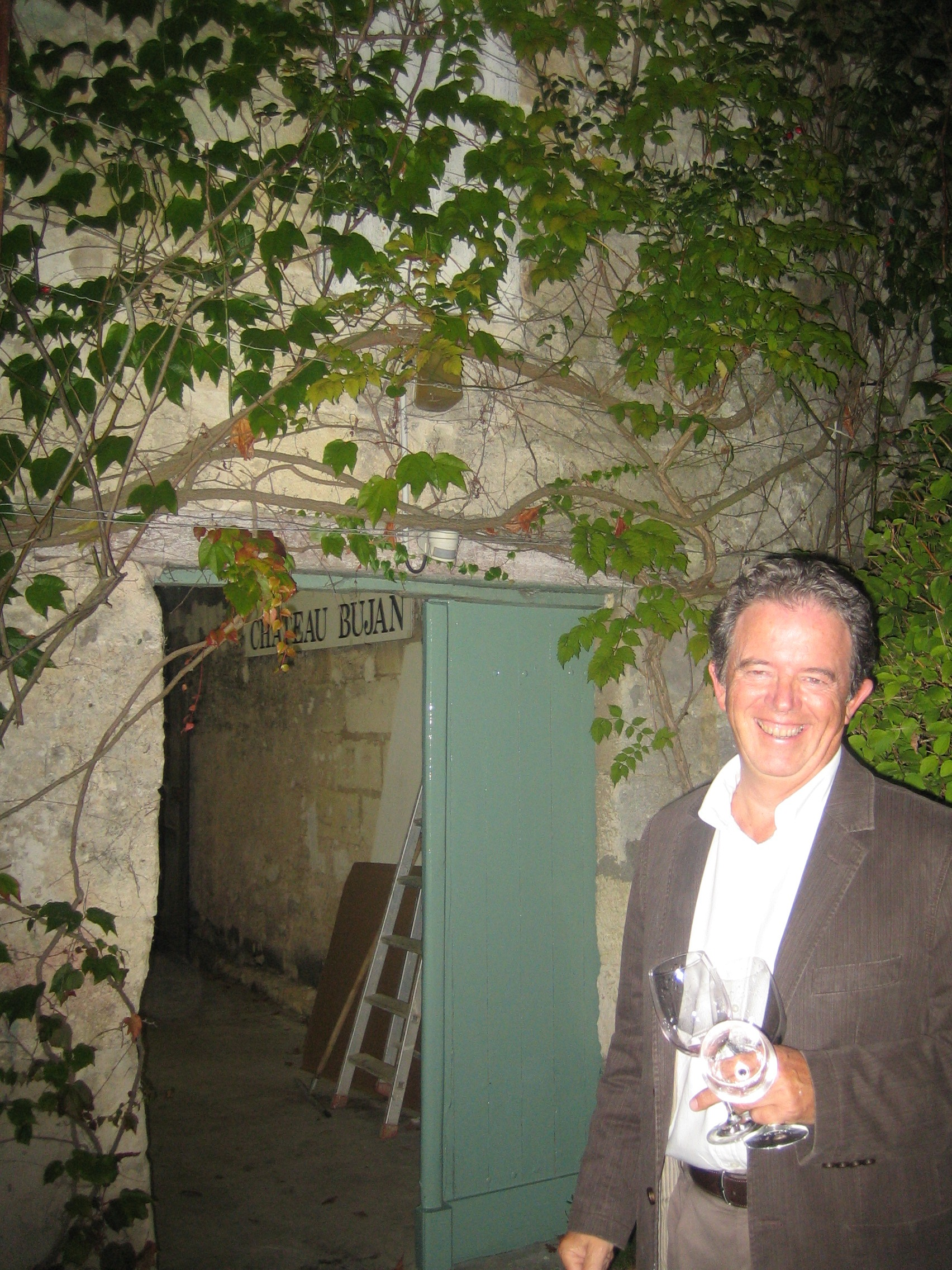 Pascal Meli shows us the entrance to his cellar at Chateau Bujan in the Côtes-de-Bourg, Bordeaux, France.